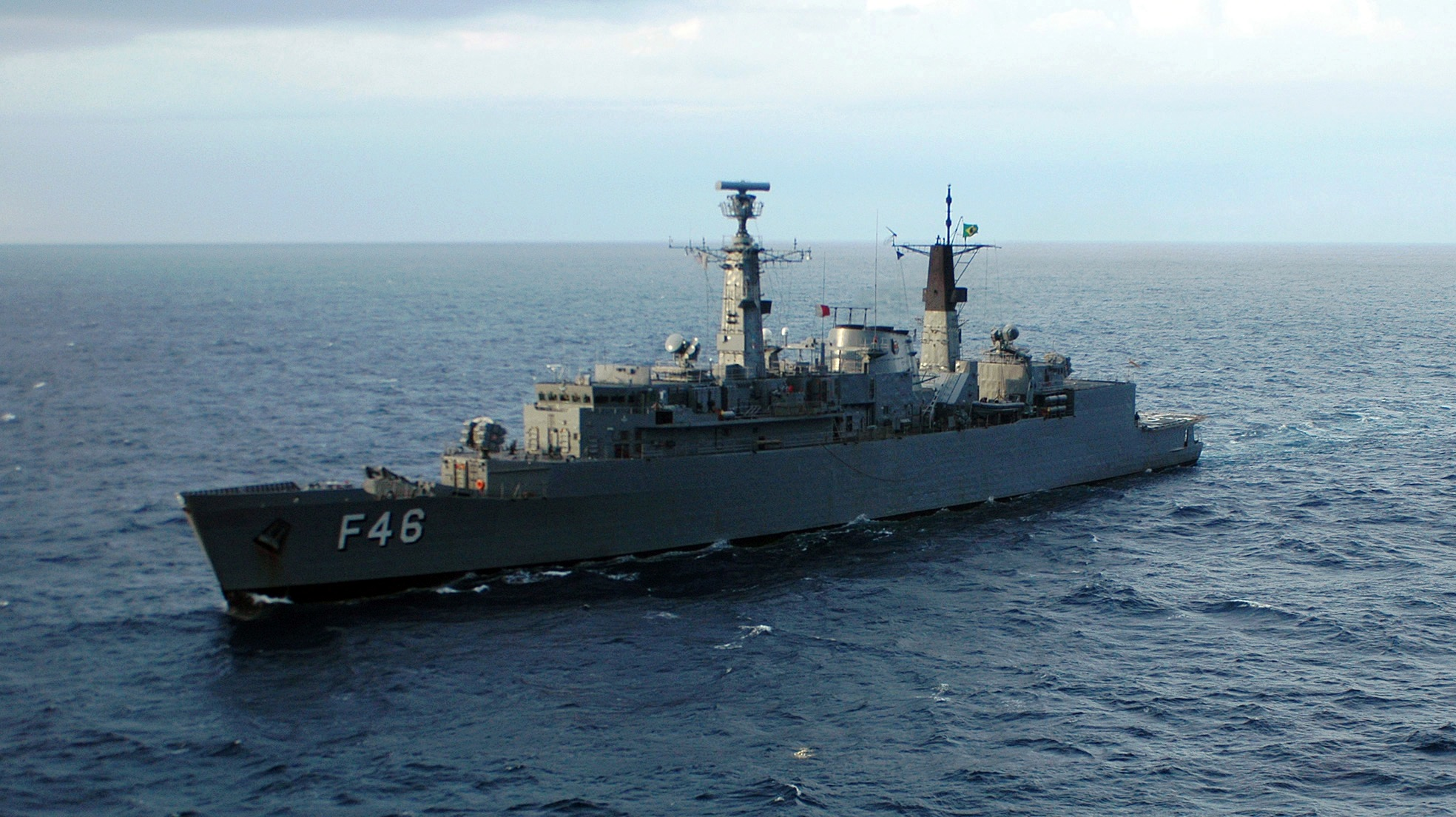 The Brazilian Navy Ship (BNS) Greenhalgh (F-46) steams through the Atlantic during the Iwo Jima Expeditionary Strike Group composite unit training exercise.